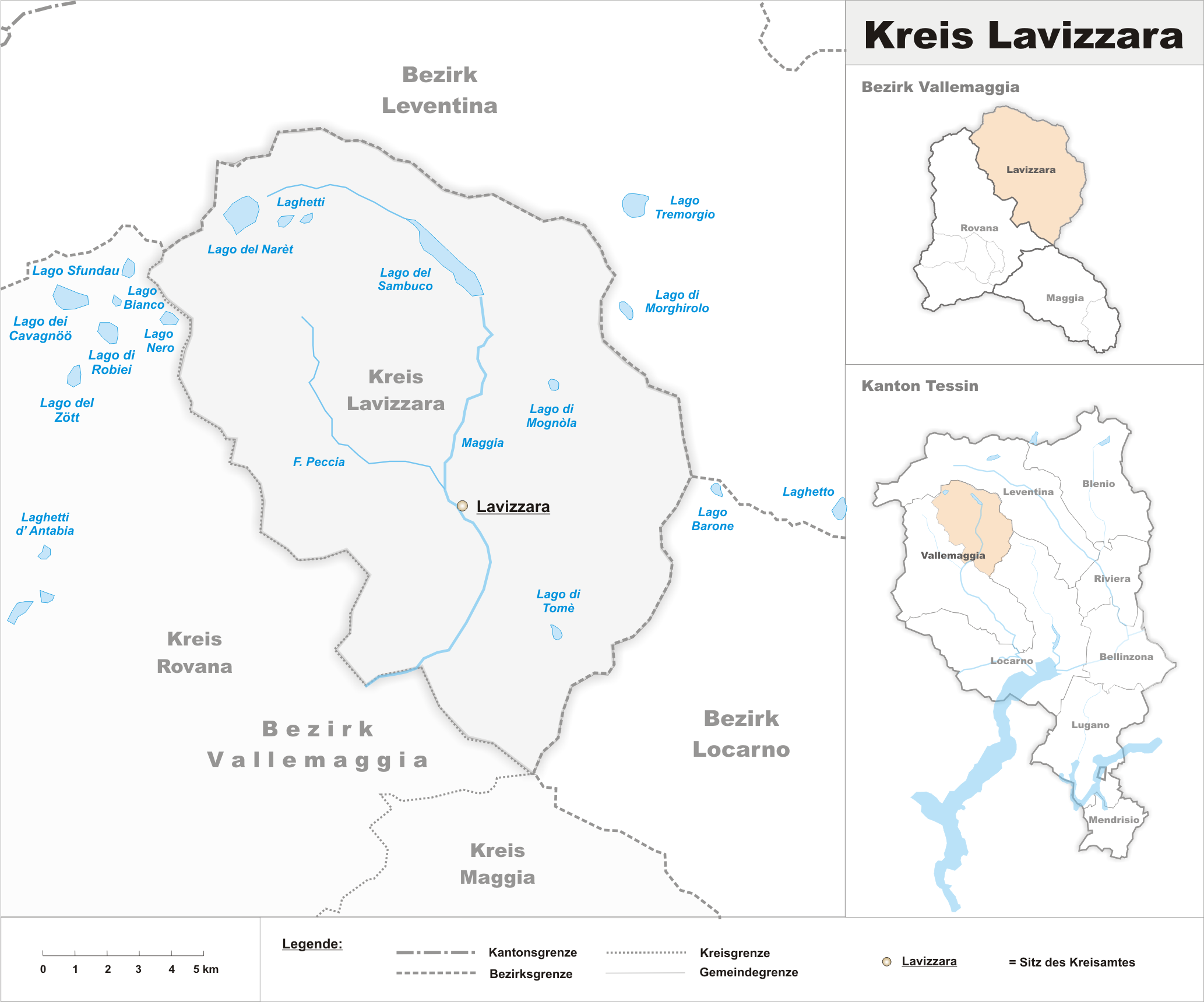 Municipalities in the circle of Lavizzara